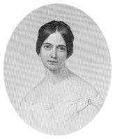 Frances Sargent Osgood (1811-1850); "This engraving of Mrs. Osgood was used as the forntispiece for the edition of her poems published in 1850. It is based on a fine portrait made by her husband, Samuel Stillman Osgood, a well-known painter."